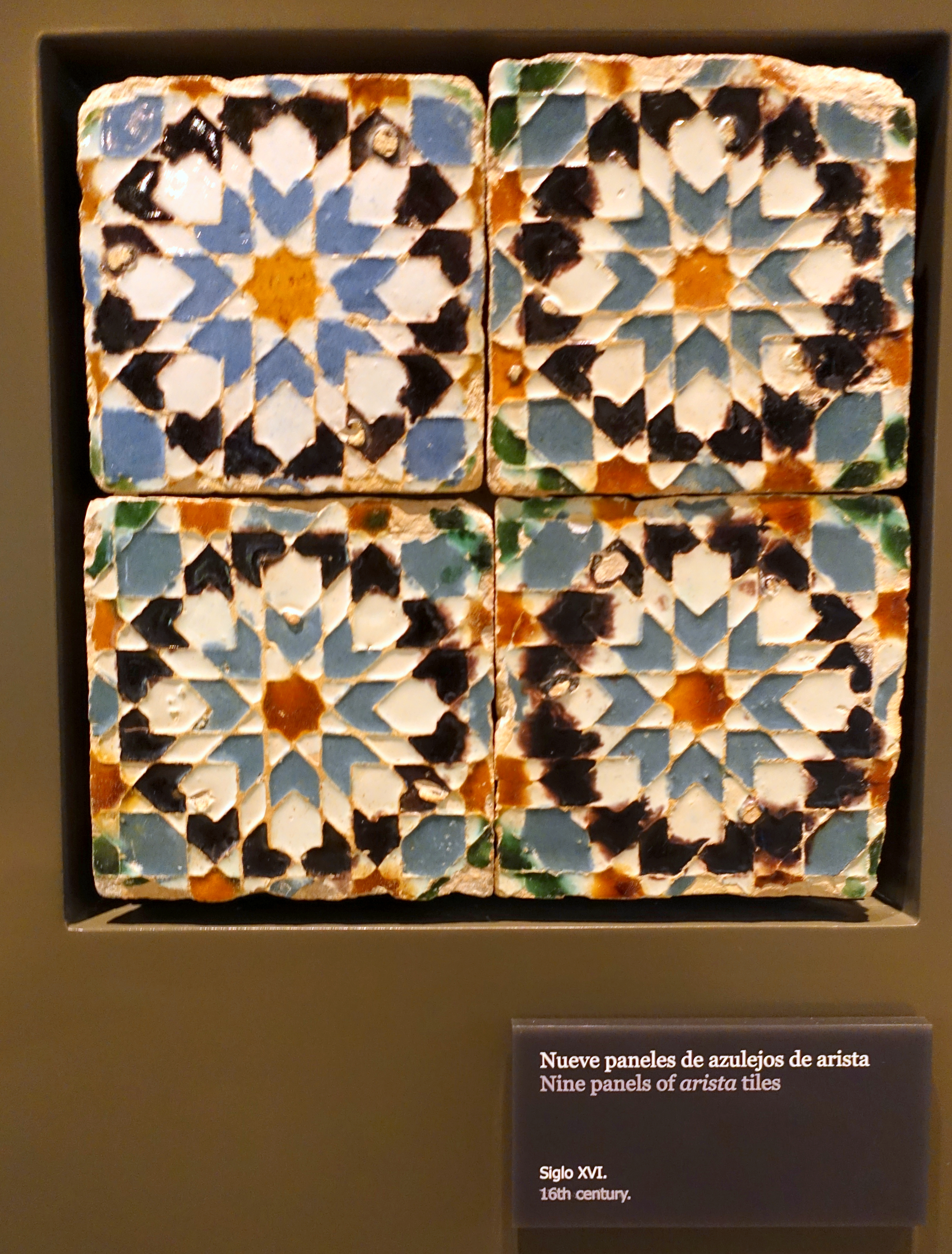 Ceramic tile in the Alcázar of Seville, Spain.